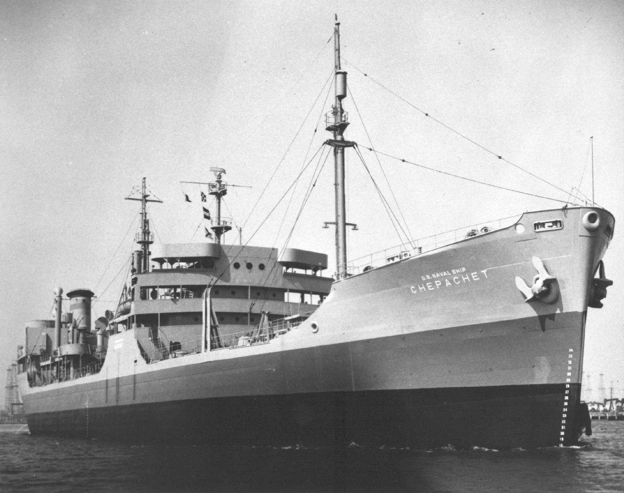 Picture of the fleet oiler USNS Chepachet (T-AOT-78) taken sometime after en:1946.